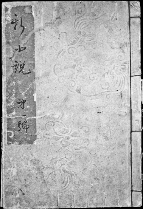 Cover of Shinshōsetsu